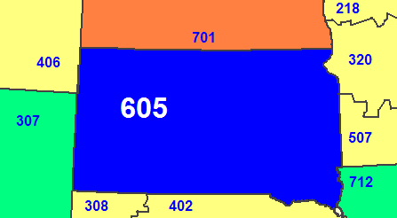 Area code map of South Dakota showing surrounding states.